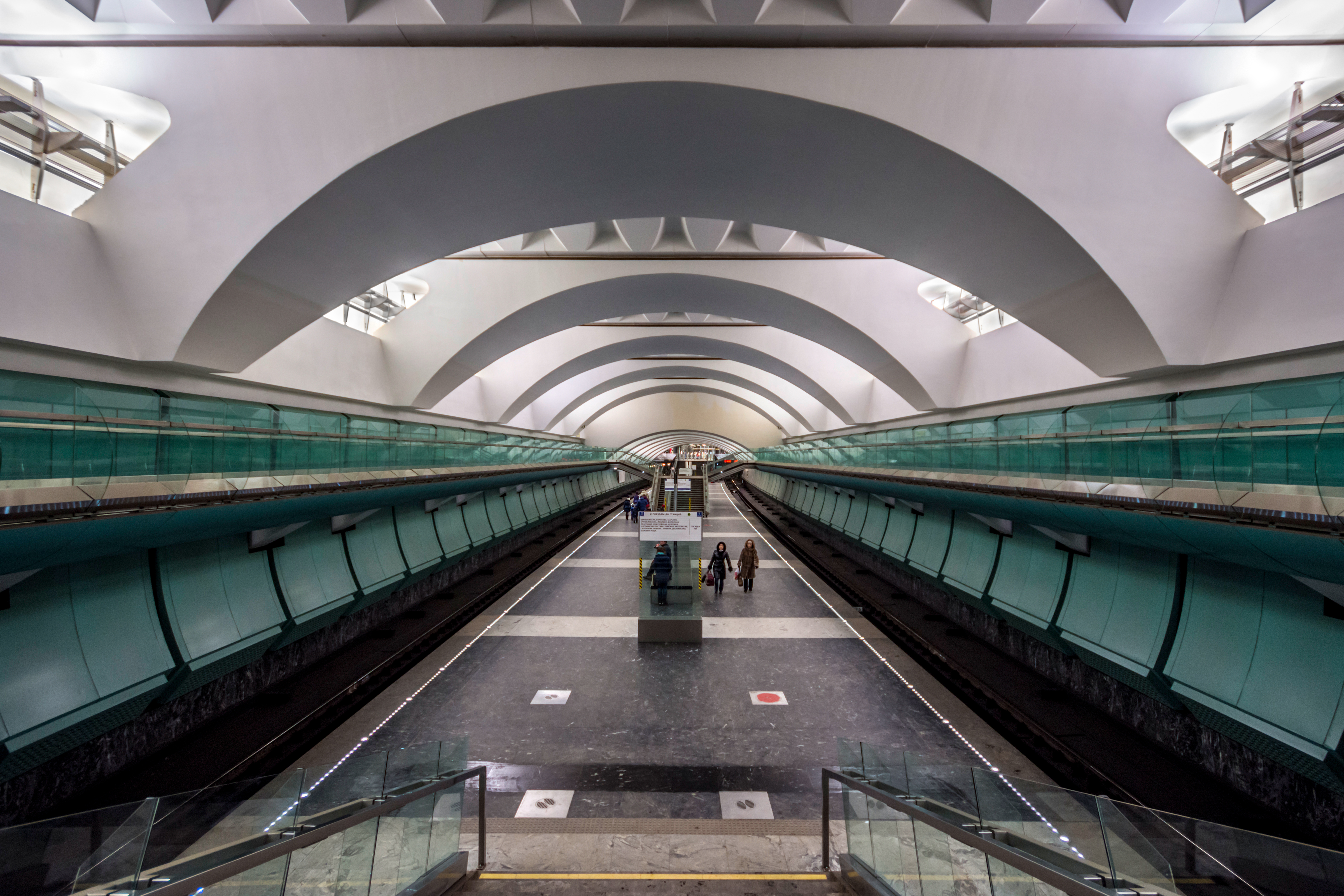 Zyablikovo Station of Moscow Subway